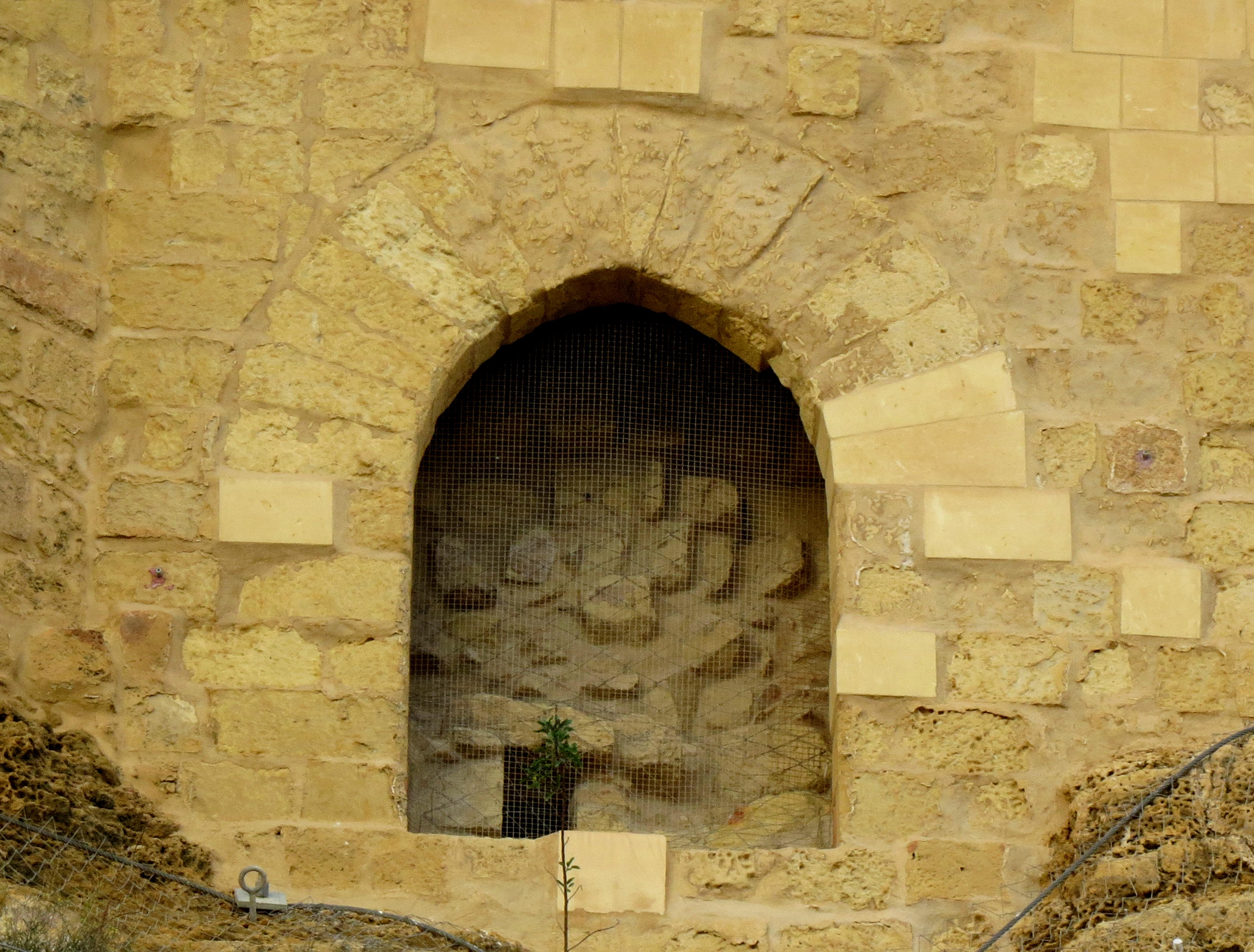 Medieval sally-port on north enceinte - Citadel This media is about Maltese cultural property with inventory number 01472.